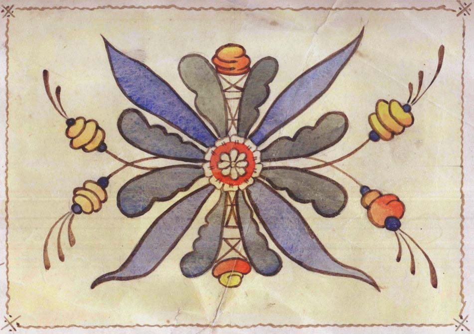 Kurbits, school artwork (signature visible on original)Place: Borlänge, Sweden